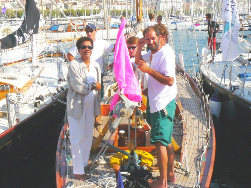 Pen Duick in the old harbour of Cannes, France, Jacqueline Tabarly on-board